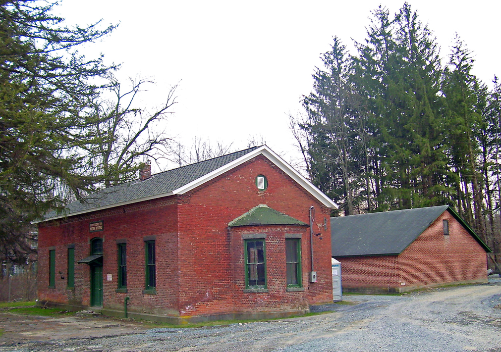 Photographed by Daniel Case 2006-12-06